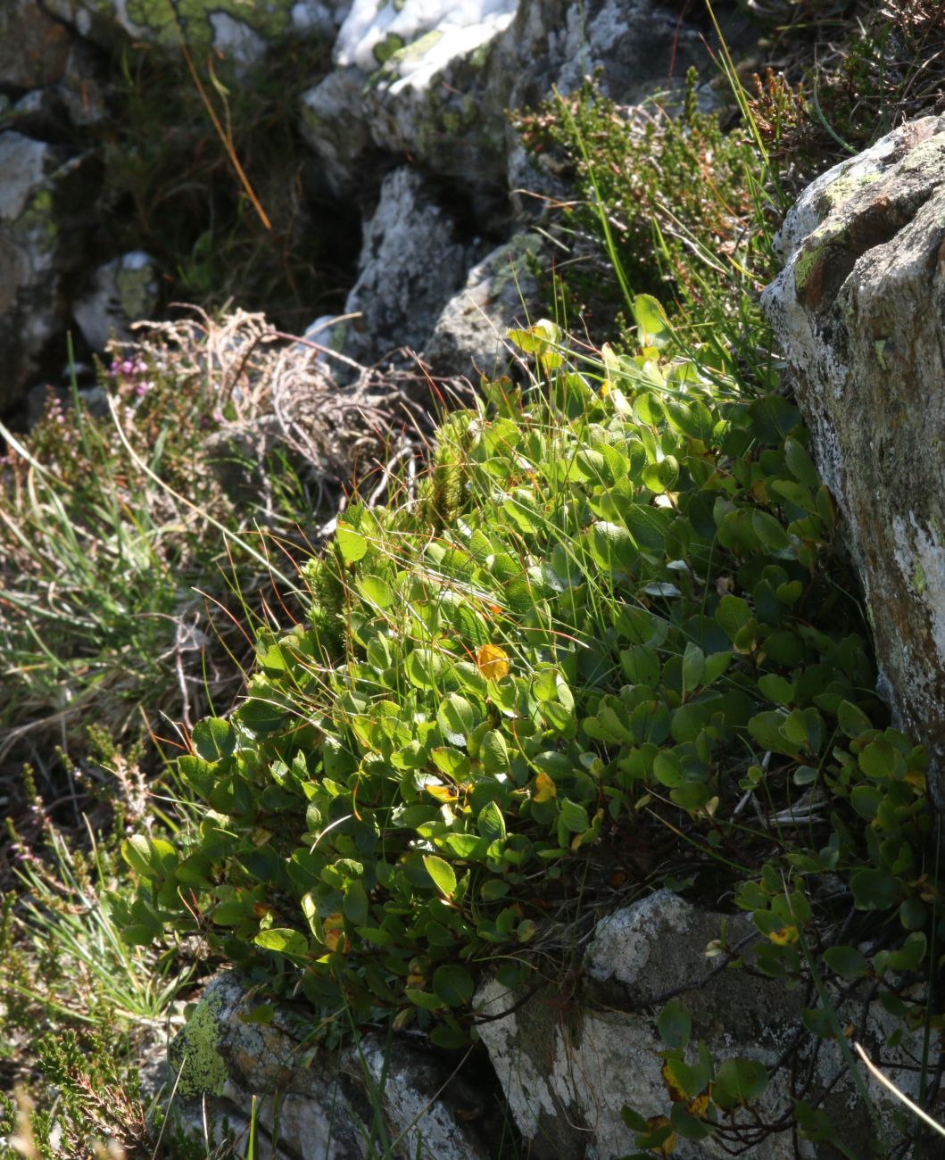 Salix herbacea in Úpská jáma, Krkonoše Mountains, Czech republic